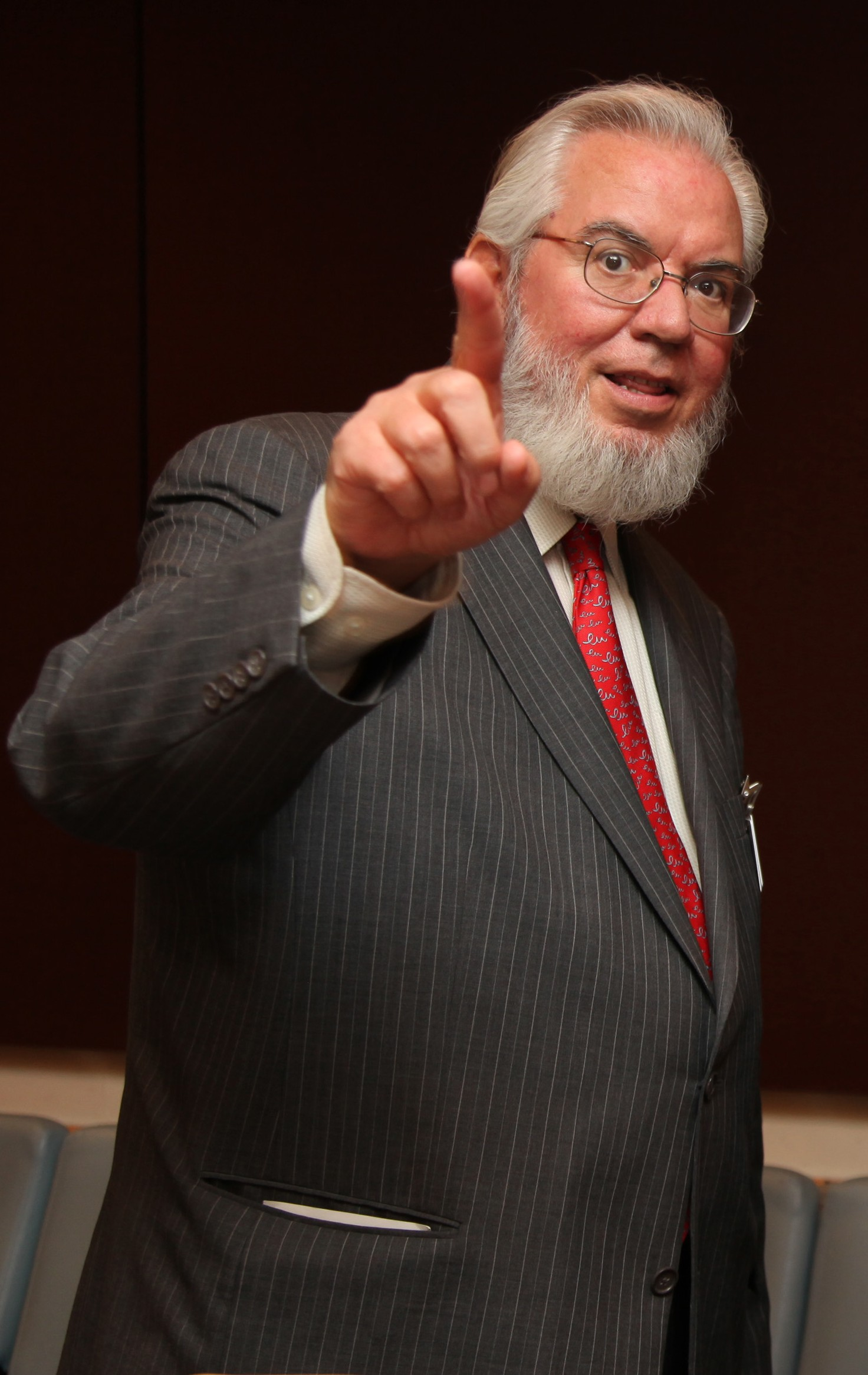 Juan Somavía at SI Presidium meeting.